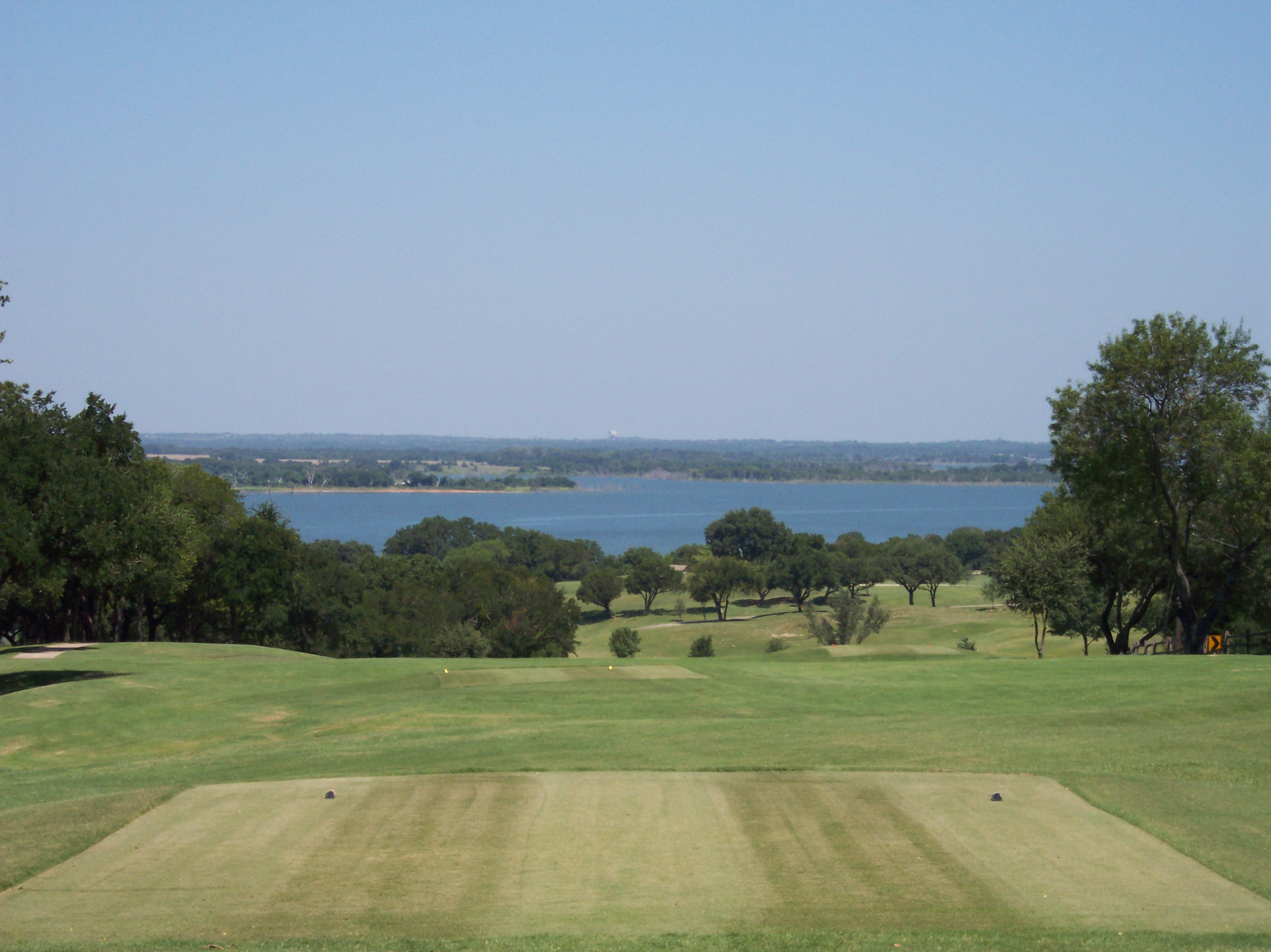 View of Lake Waco, from Ridgewood Country Club, 2010